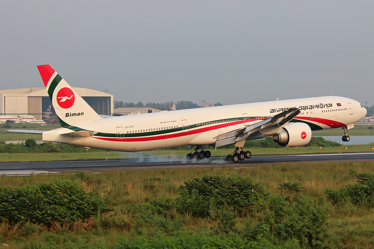 Biman Bangladesh Airlines,Boeing 777-3E9ER landing at VGHS.